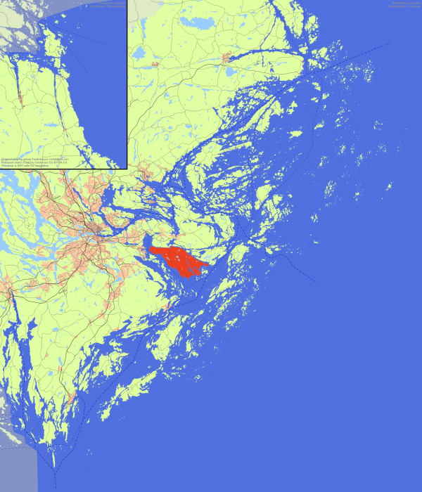 Location of the island Ingarö